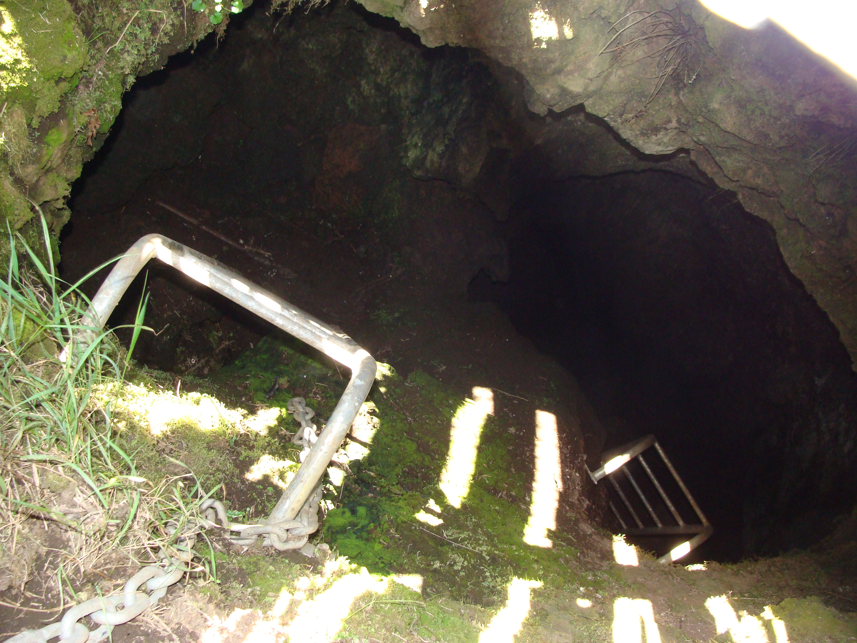 Wiri lava cave entrance, Auckland, New Zealand.